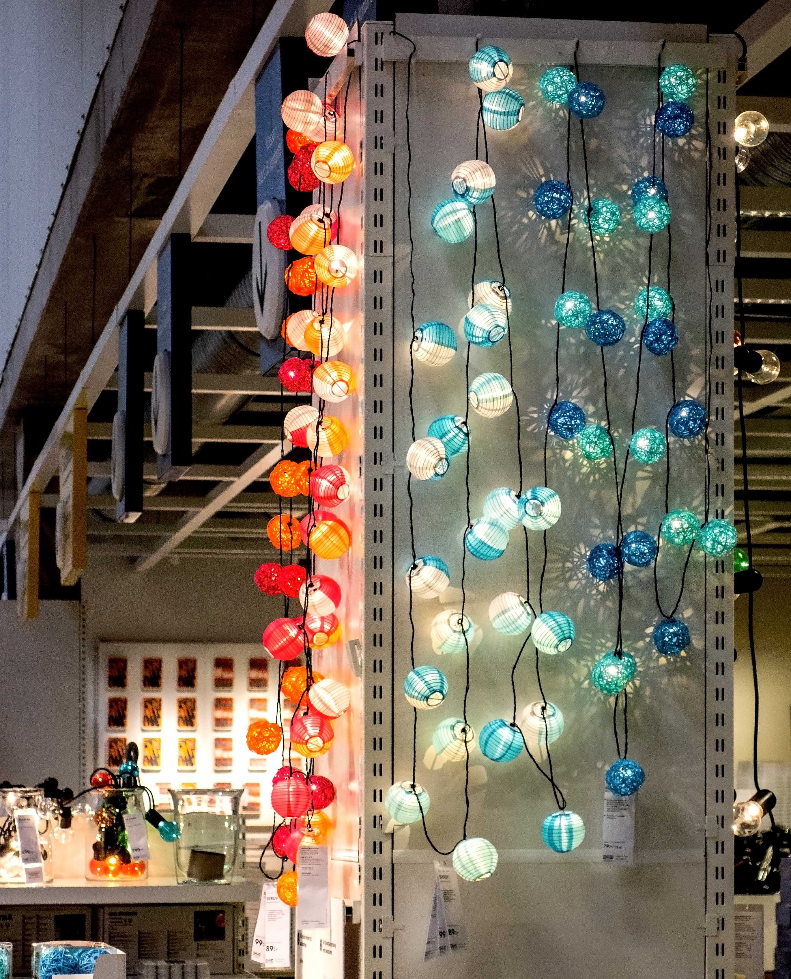 Chain lights in IKEA store in Torp köpcentrum, Uddevalla, Sweden.